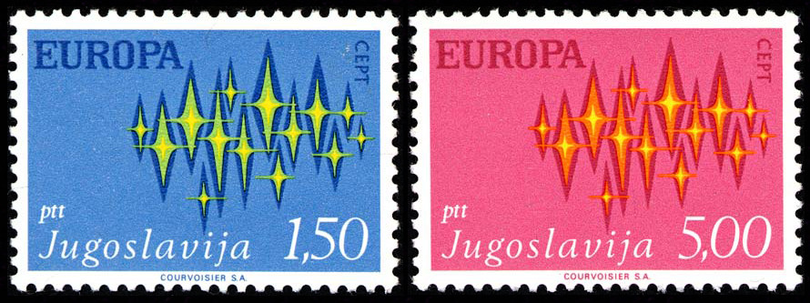 Postage stamps of Yugoslavia. 1972. Issue of EUROPA-CEPT program.